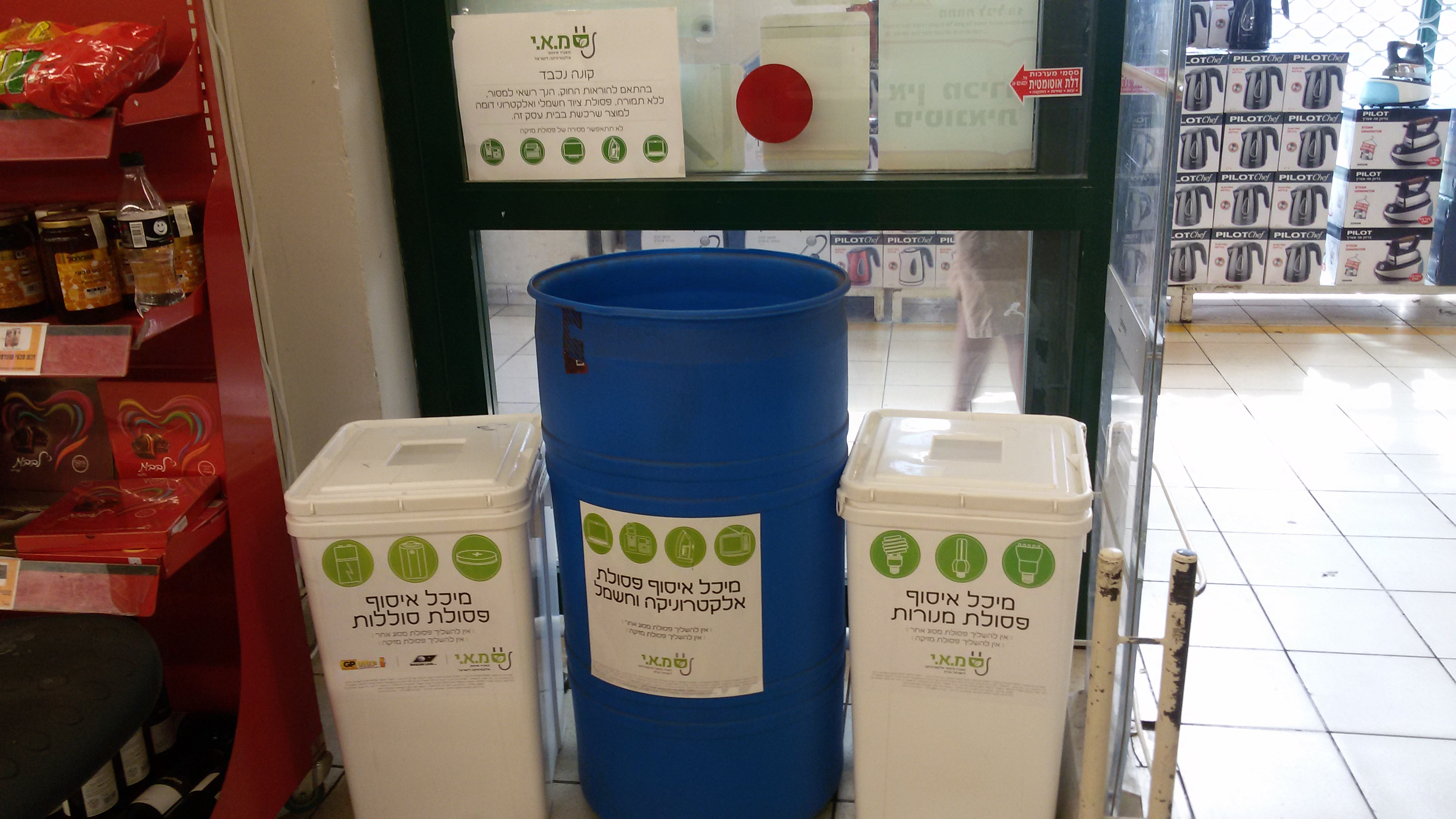 מיחזור פסולת אלקטרונית, מ.א.י - תאגיד מיחזור אלקטרוניקה